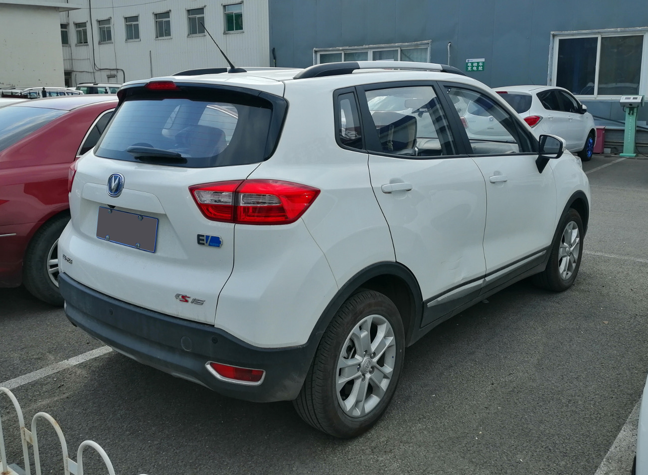 Chang'an CS15 EV photographed in Beijing, China.